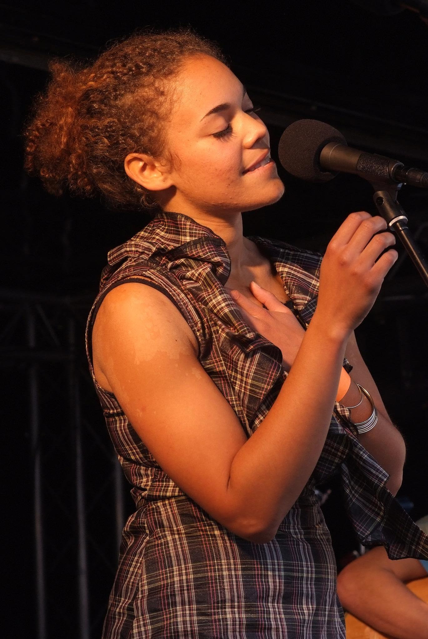 Jazz singer Andreya Triana at the Dalston Festival Vortex